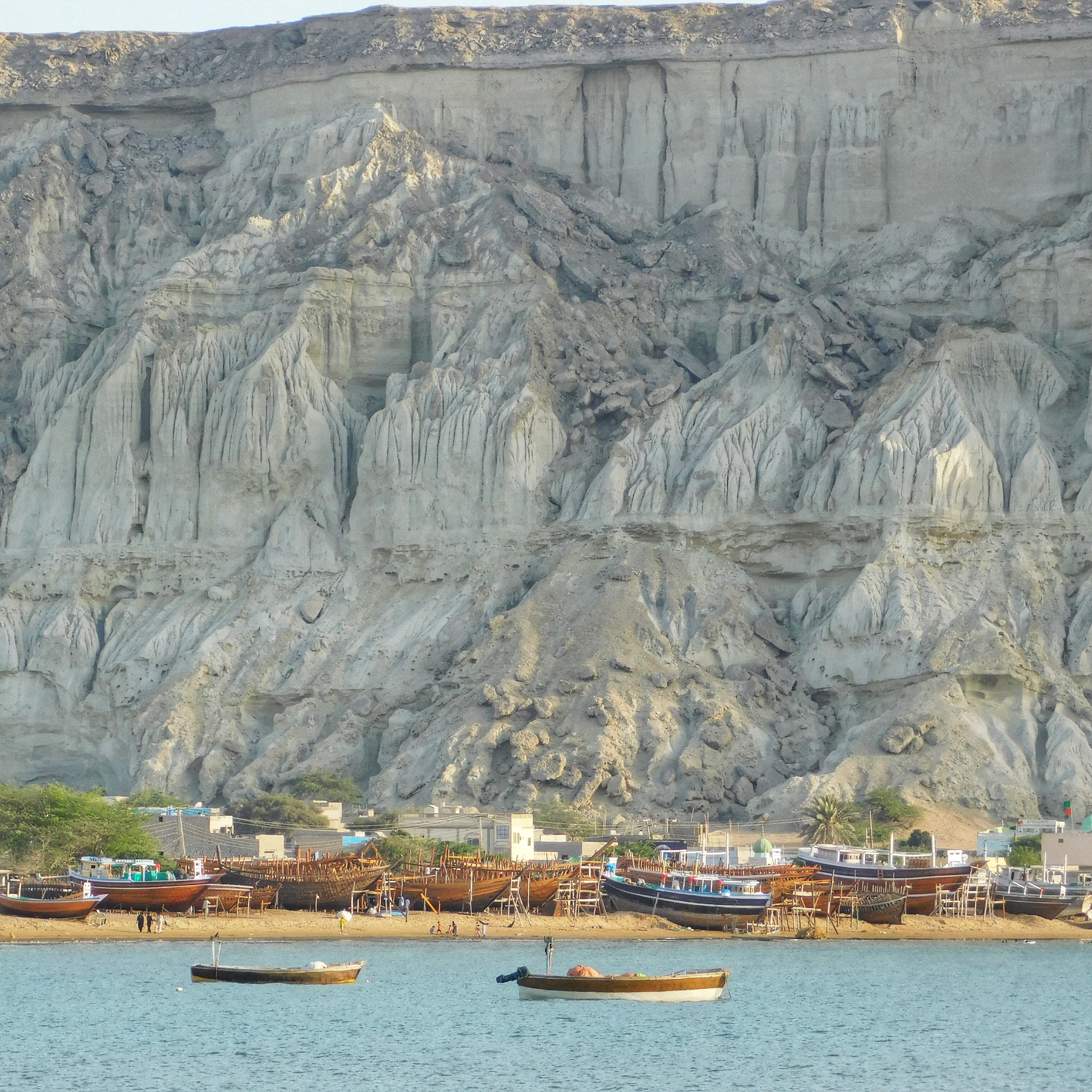 Shallow water basin for fishing boats on western bay aka Paddi Zarr of Gwadar. Koh e Batil Hammerhead is in the background